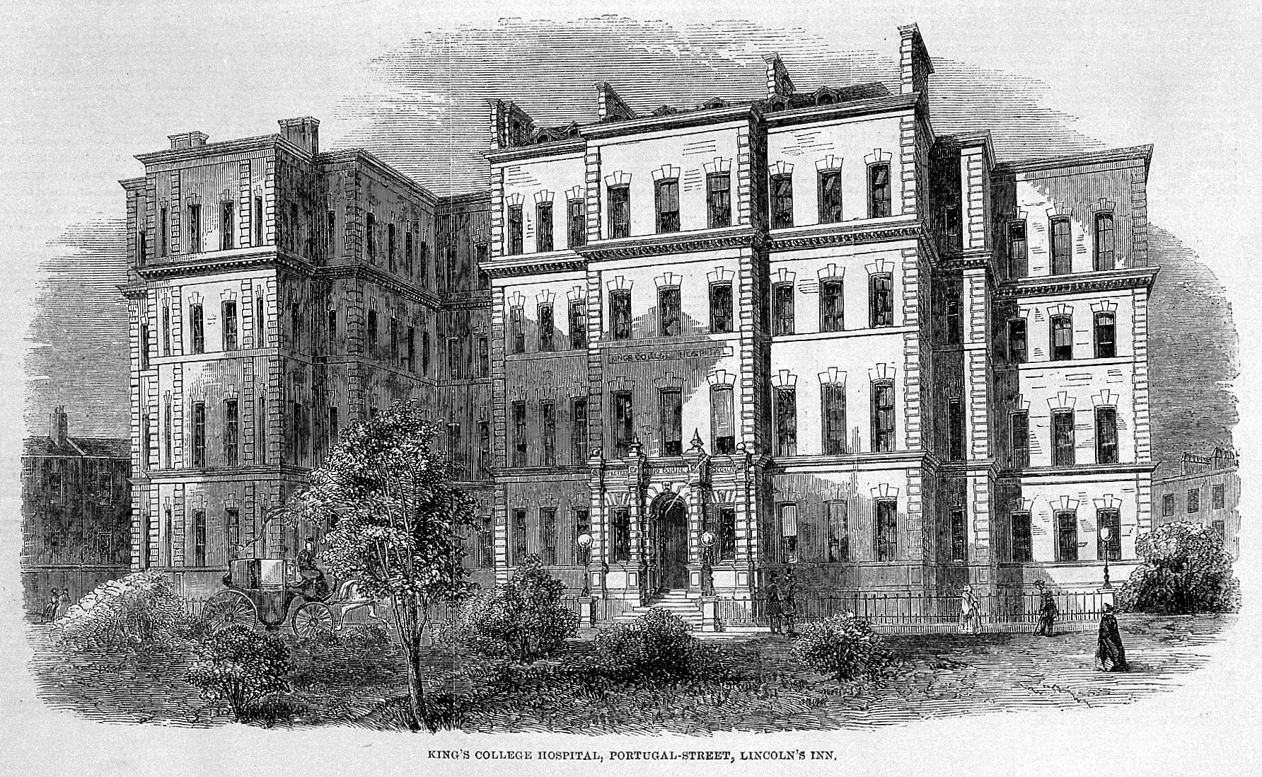 King's College Hospital, Portugal-Street, Lincoln's Inn. General Collections Keywords: Institutions